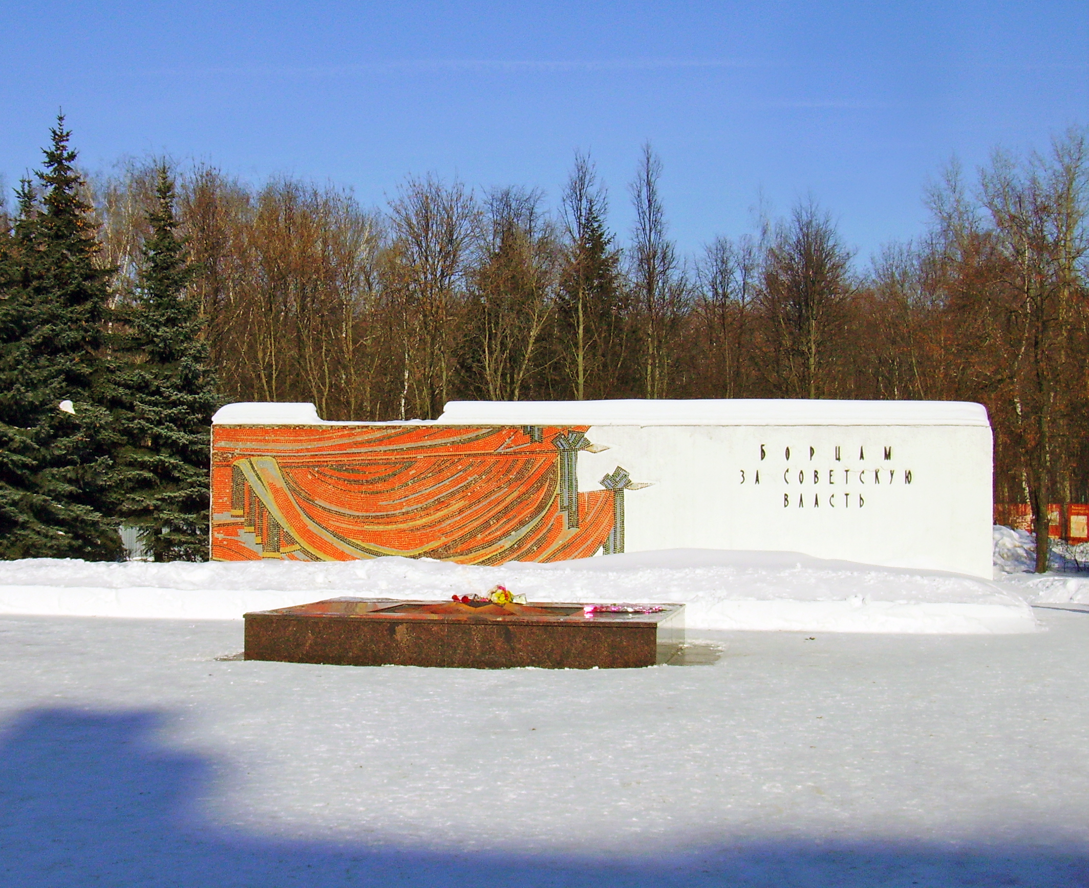 Arzamas. Monument to Fighters for Soviet Power